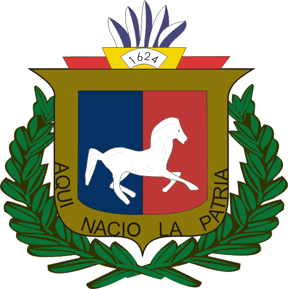 Coat of Arms of the Department of Soriano, in Uruguay. Drawn by: Jordevi